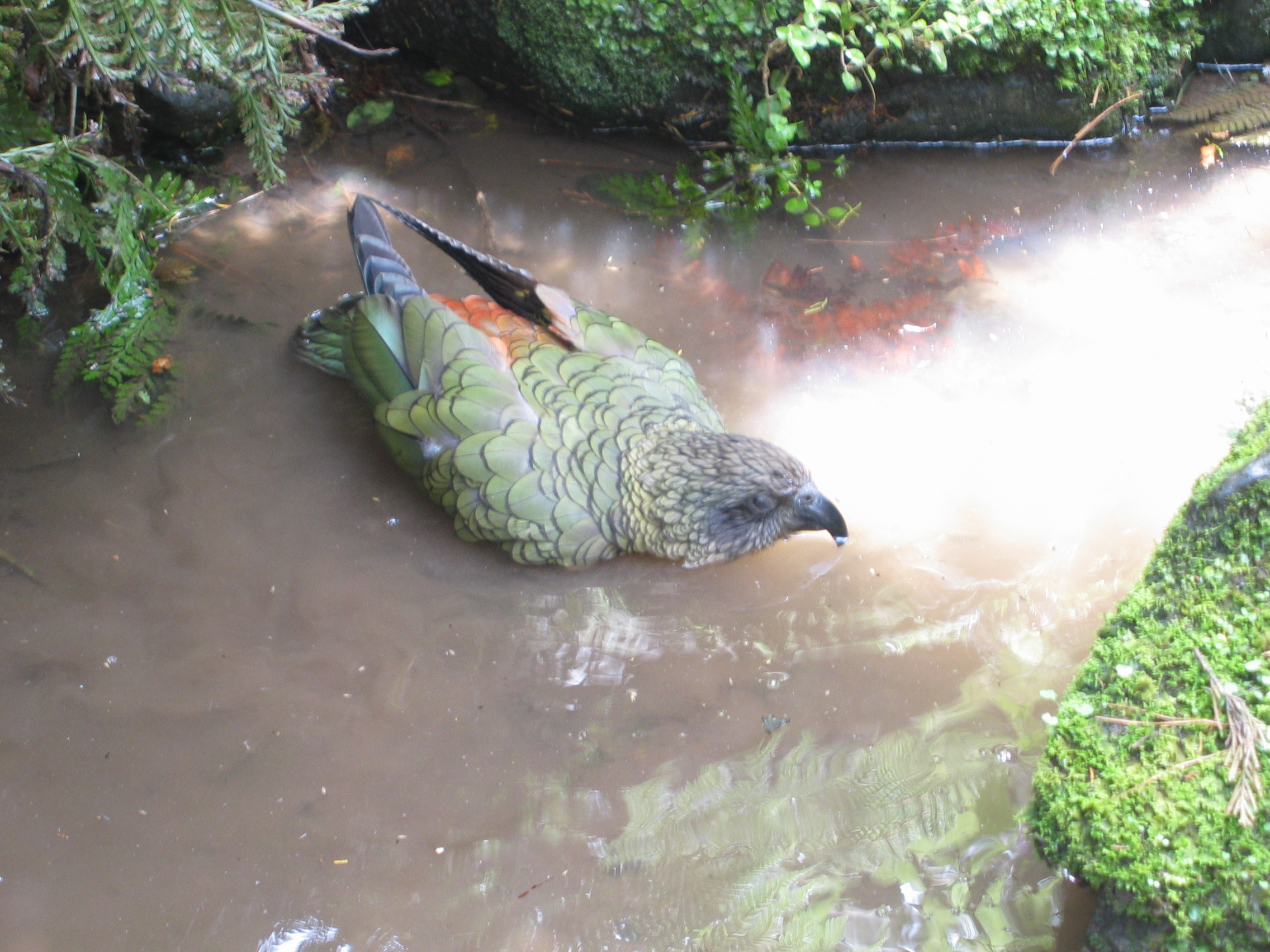 A kea (Nestor notabilis) bathing